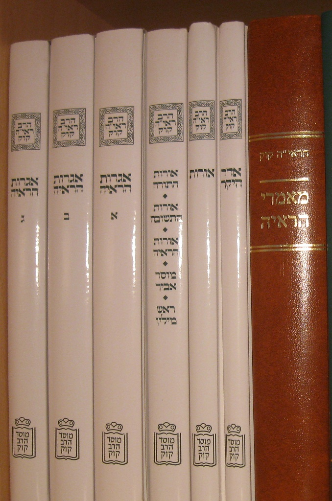 Abraham Isaac Kook's books